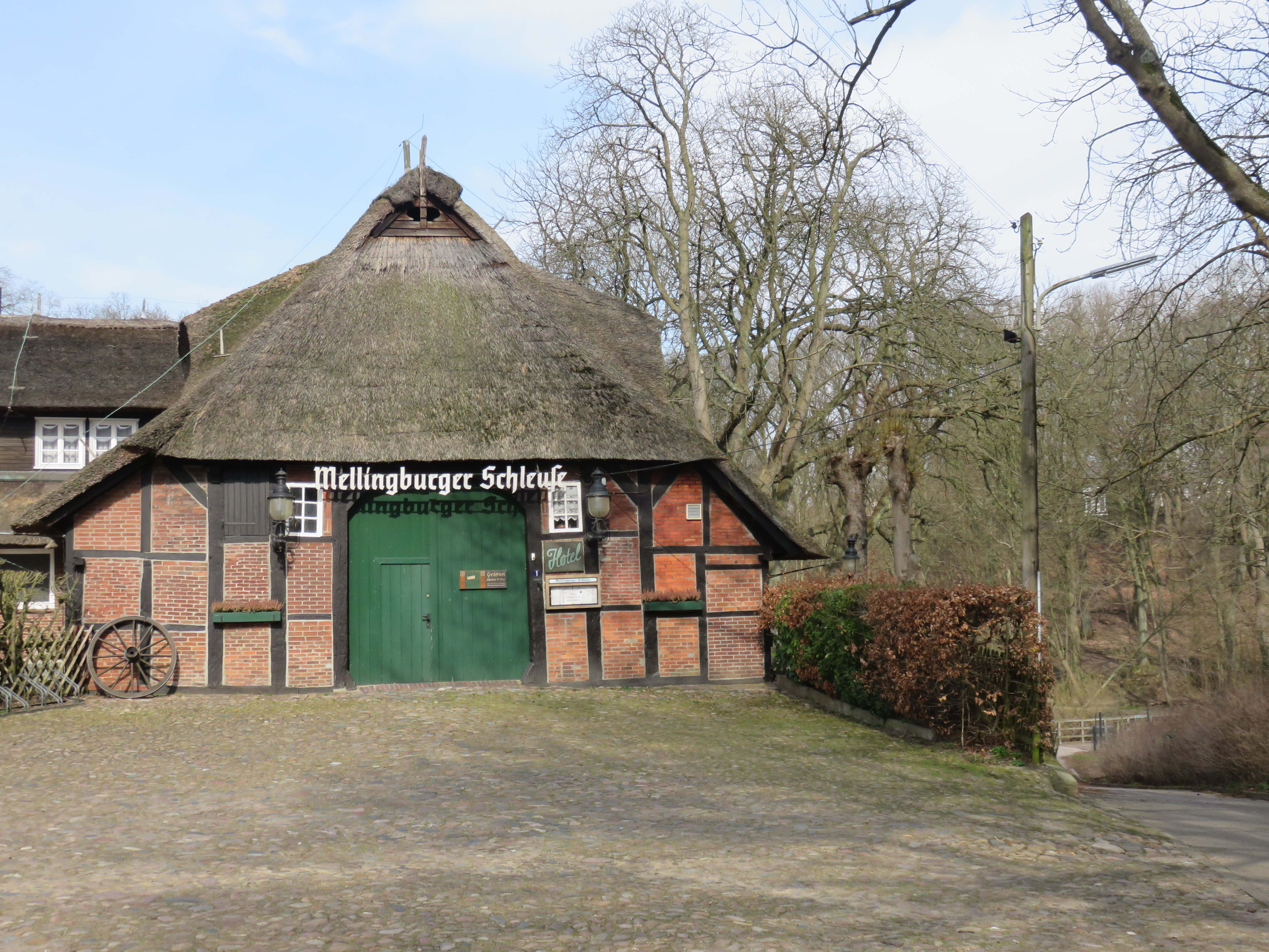 Former lock keeper's cottage of Mellingburger Lock